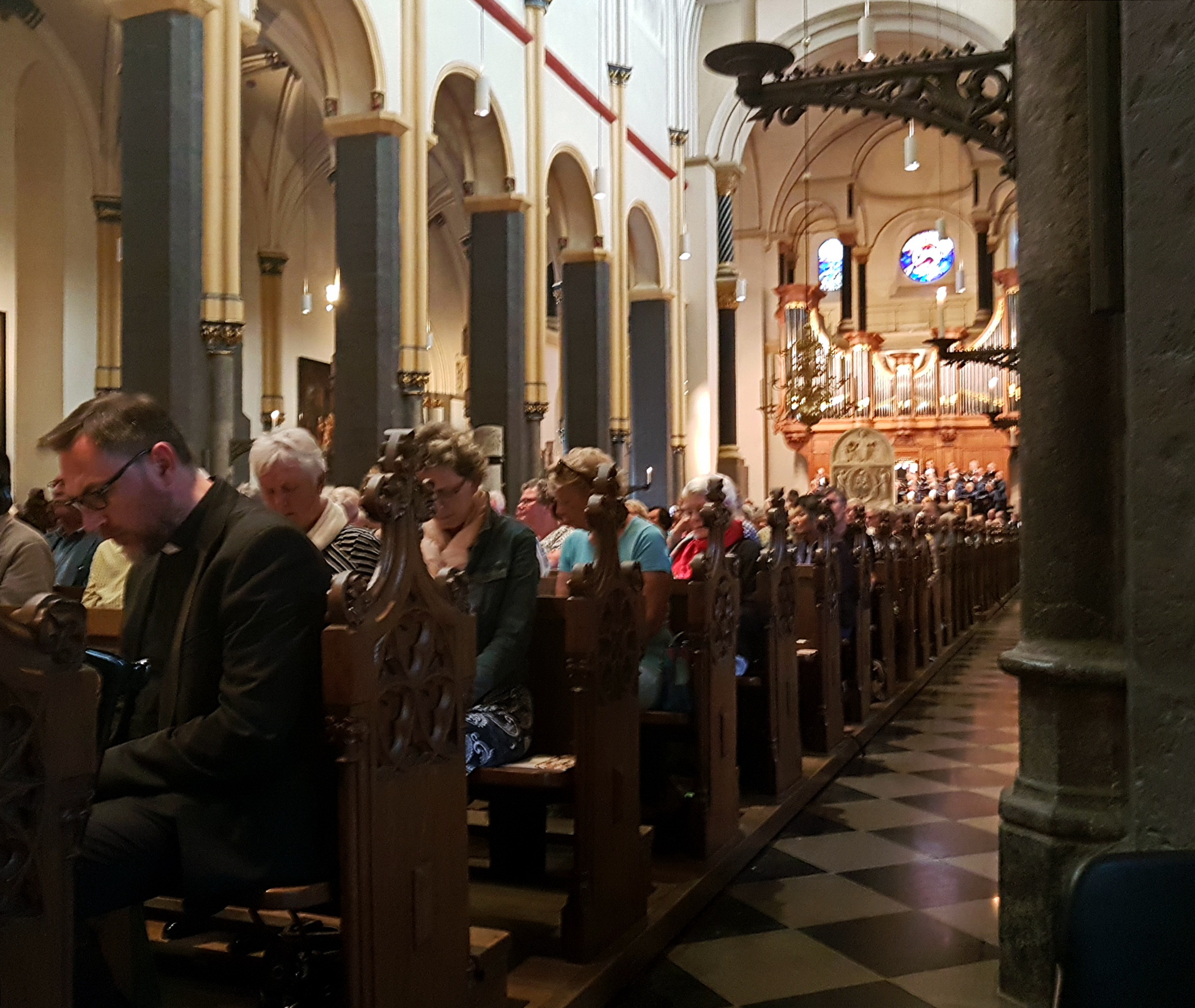 Church goers in the Basilica of Saint Servatius in Maastricht, Netherlands. This photo is taken during a church service in which the main relics of the church are venerated. It is one of the highlights of the 2018 Heiligdomsvaart ("relics pilgrimage"), a religious and historic event that takes place once in seven years and dates back to the Middle Ages.